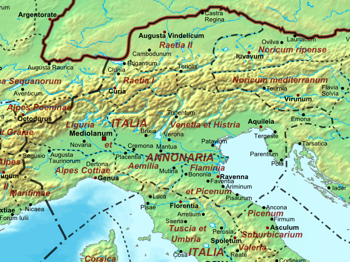 Map of the Roman Empire ca. 400 AD, showing the administrative division into dioceses and provinces, as well as the major cities. The demarcation between Eastern and Western Empires is noted in red.